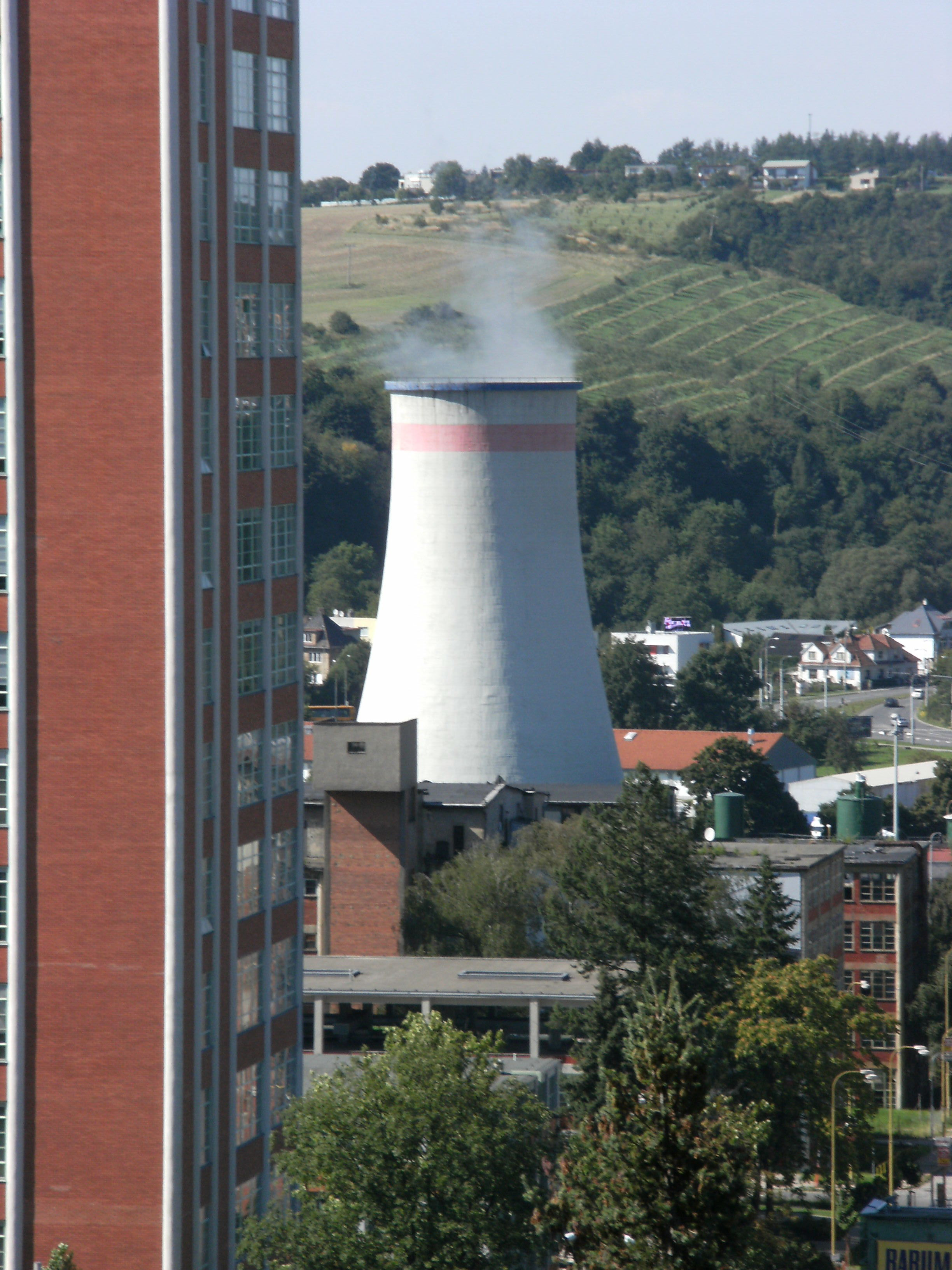 View_from_hotel_Moskva,_Bata_building_nr._21.